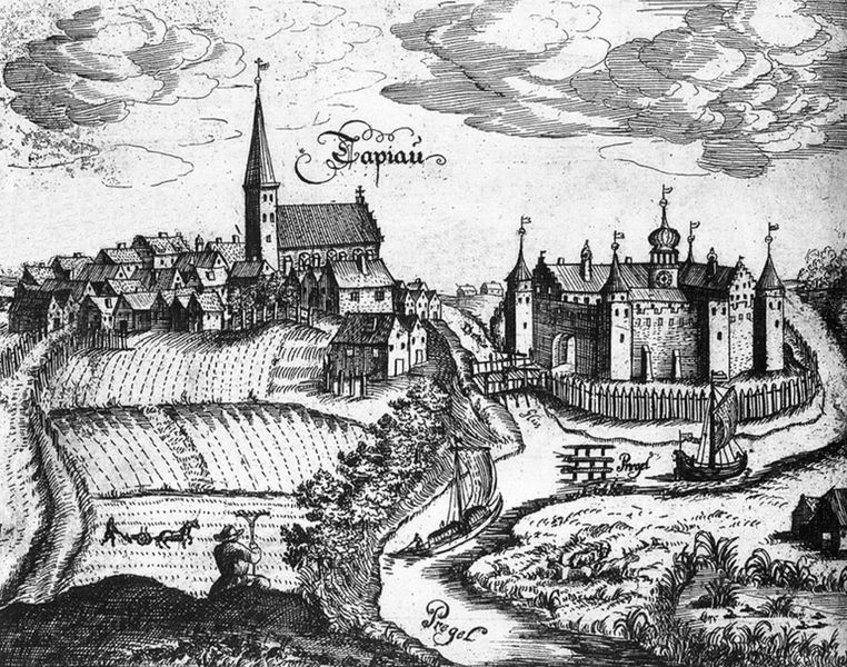 Tepliava and vytinė ship